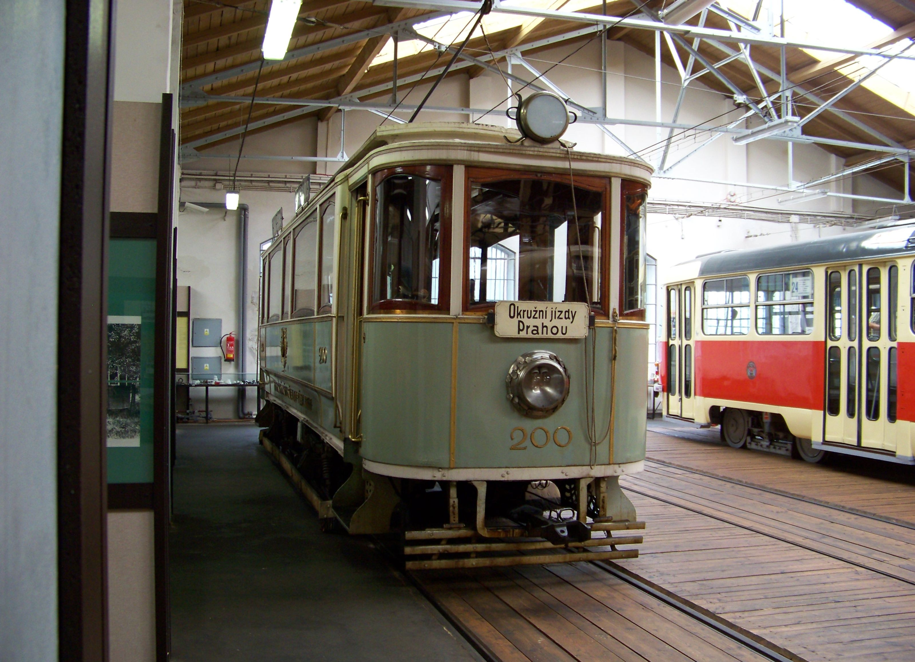 Prague-Střešovice, Czech Republic. Střešovice tram depot, Public Transport Museum. A tram.